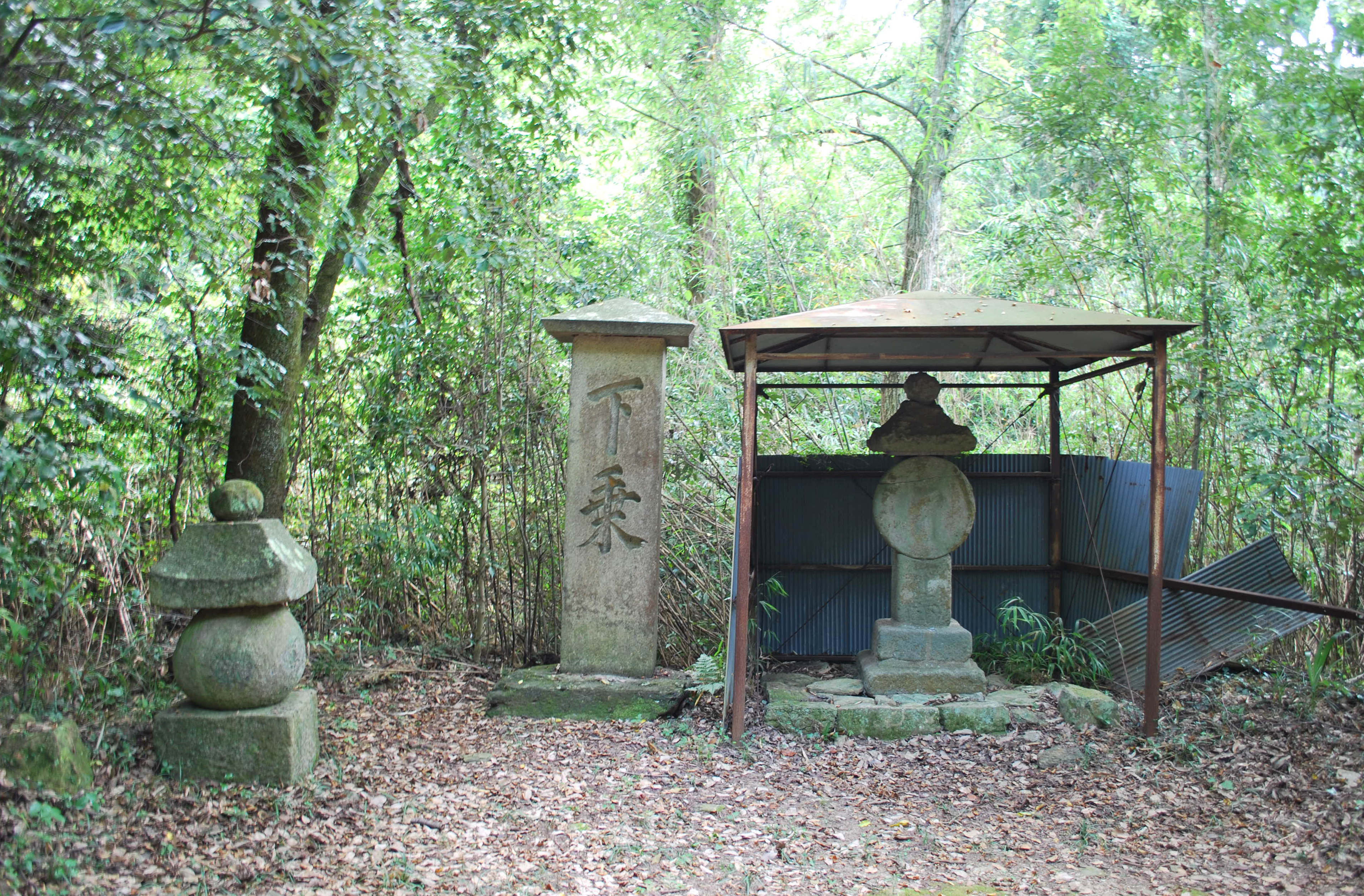 Manirin-tō(right, Stone pagoda) , Gejō-seki(center, Dismounting stone) and Stone pagoda(left) on Henro-michi way to Negoro-ji to Shiromine-ji